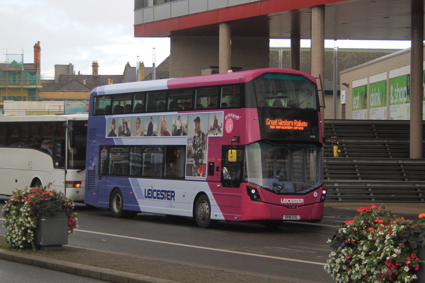 A Wright StreetDeck bus (FirstGroup number 35182, registration SK16GVC) on rail replacement duties at Newport in south Wales. It's usual home is in Leicester but a number of buses have been brought in from around the country to provide a service to Bristol while the Severn Tunnel is closed for engineering work.